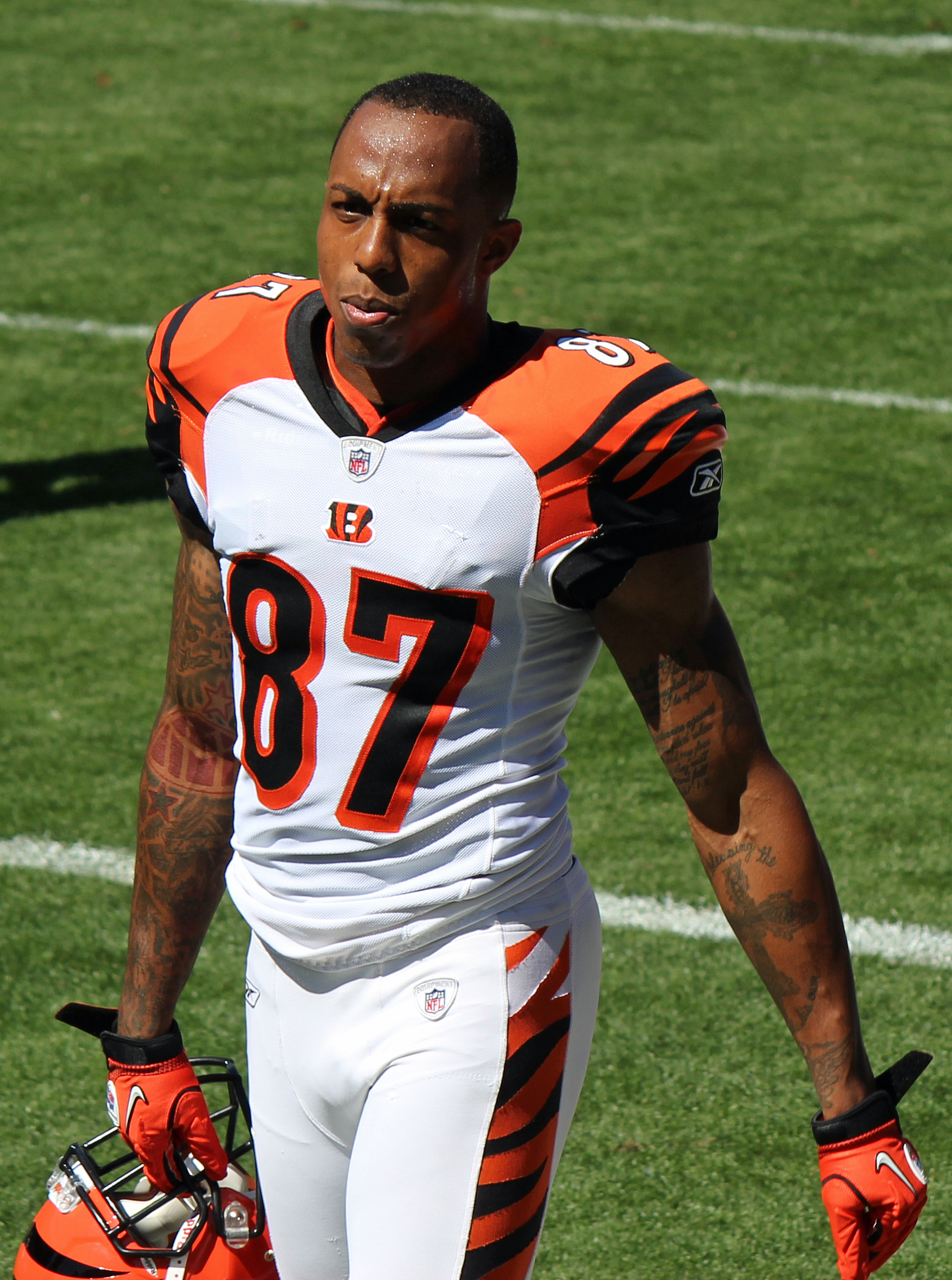 Andre Caldwell, a National Football League player.